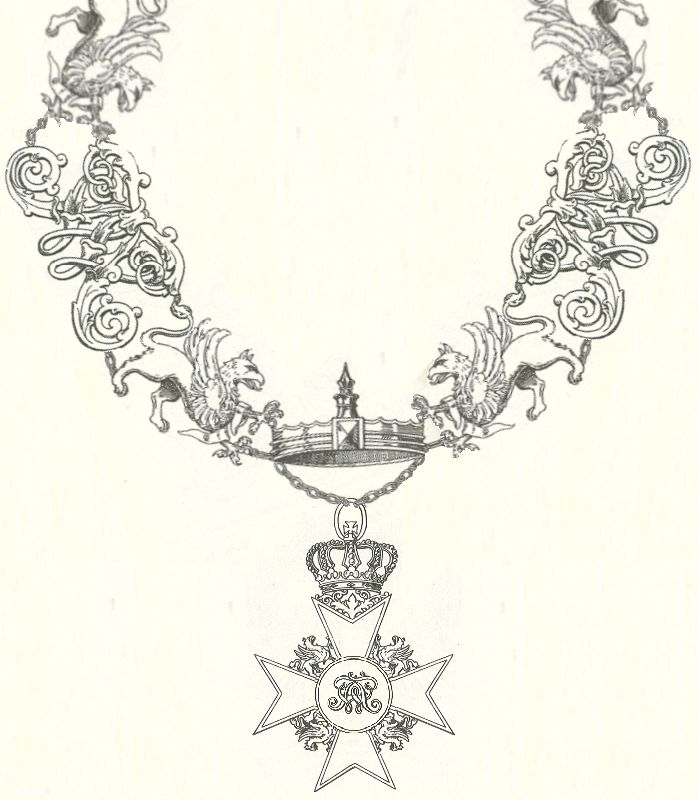 Collar of the House-Order of the Wendencrown, Mecklenburg-Strelitz The cross shows the reverse